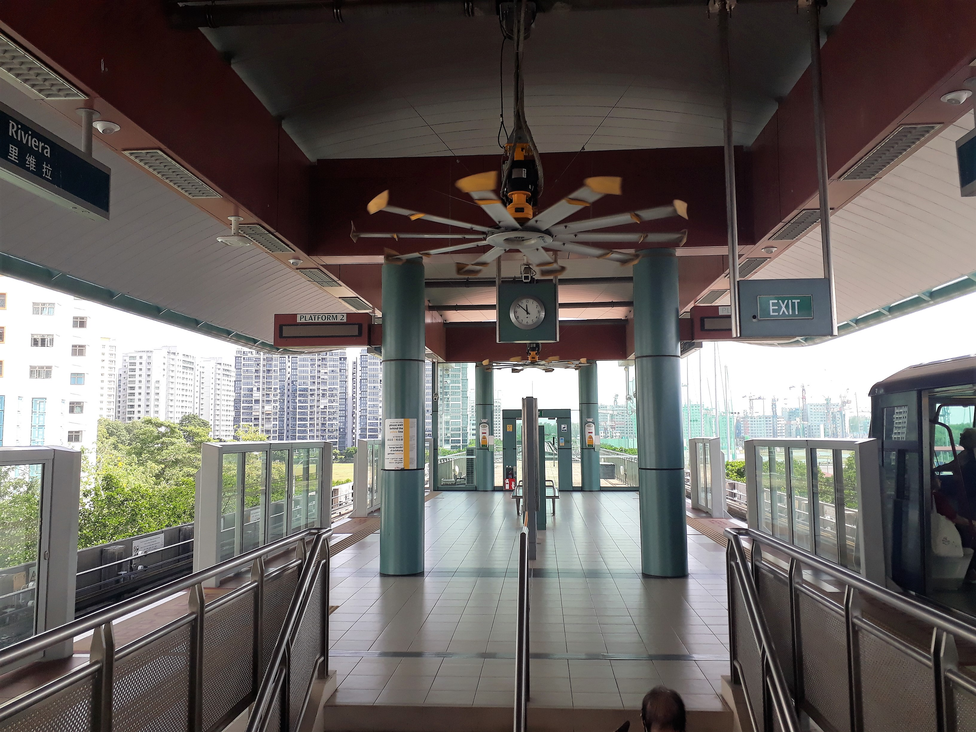 Platform level of Riviera LRT station